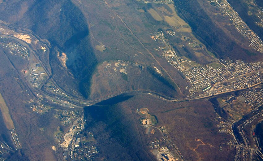 Oblique air photo of Cumberland Narrows (a water gap), facing northeast, December 10, 2006. Wills Mountain is at top, Haystack Mountain (Maryland) is at bottom. The anticlinal structure of the Tuscarora Formation (sandstone layer at top and sides of the mountain) is apparent in this photo. U.S. Route 40 Alternate and the National Road & historic Cumberland Road runs through the pass from and above Cumberland, Maryland, as did the historic Baltimore and Ohio Railroad's tracks to the Monongahela Valley in Pennsylvania passing through the Cumberland Narrows pass above Cumberland, Maryland. The Western Maryland Railroad also ran track through the gap.